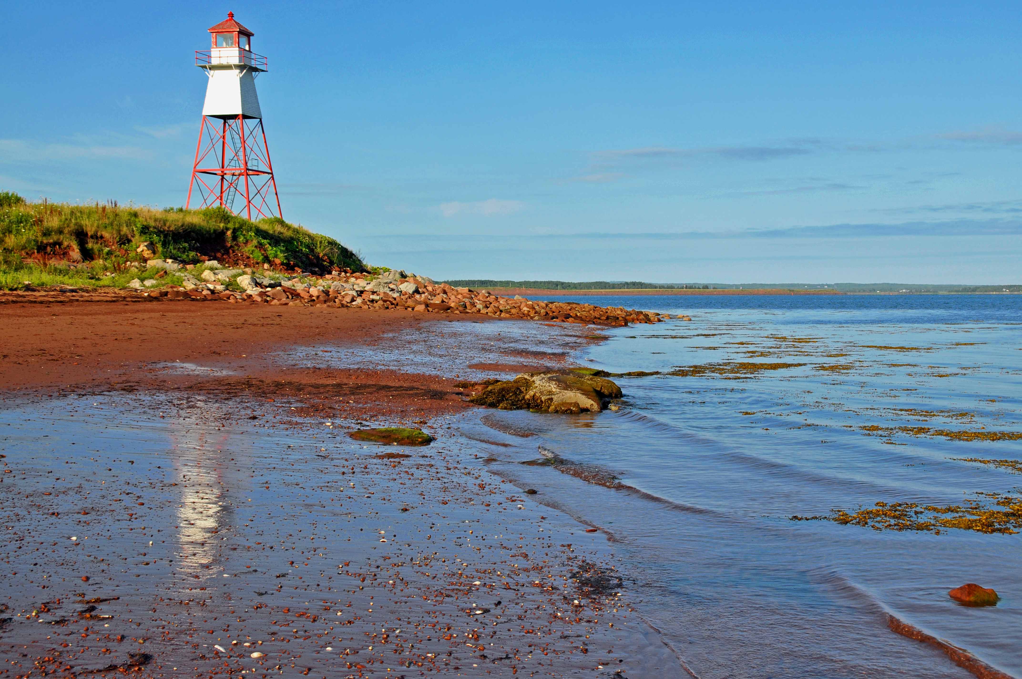 Pugwash Lighthouse. In 1962, a new tower with an enclosed upper portion and skeletal lower sections was built on the point, and the old Pugwash Lighthouse was sold to the Mundle family, who moved the structure to their nearby farm. Cyrus Eaton was born in Pugwash, attended McMaster in Toronto, and then went to work for John D. Rockefeller, before branching out on his own and making a sizeable fortune in industries related to automobile manufacturing. In 1929, Eaton returned to Pugwash and contributed money to rebuild the core of the village, construct a seawall, and create a community park. Following World War II, Bertrand Russell and Albert Einstein, joined by several scientists, published the Russell-Einstein Manifest that championed nuclear disarmament. These intellectuals were seeking funding to hold a conference on this issue in a location free from government influence, when Cyrus Eaton agreed to finance the gathering if they agreed to hold it at his home in Pugwash. The attendees christened their first meeting held in July of 1957 the Pugwash Conference, and the organization continues to meet to this day as Pugwash Conferences on Science and World Affairs. The group was co-recipient of the Nobel Peace Prize in 1995. Information from